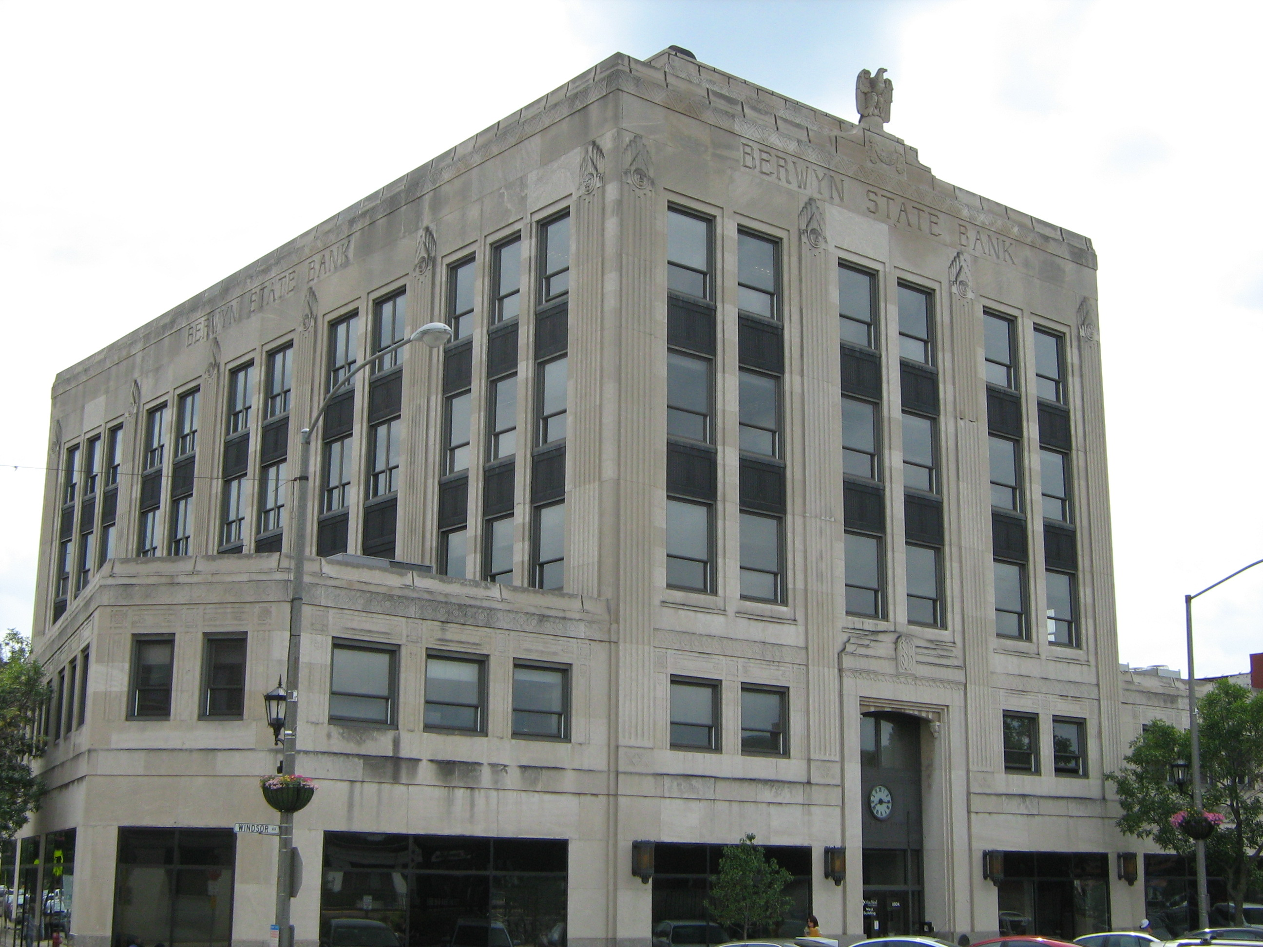 Berwyn State Bank. 6800 W Windsor Ave, Berwyn, IL.